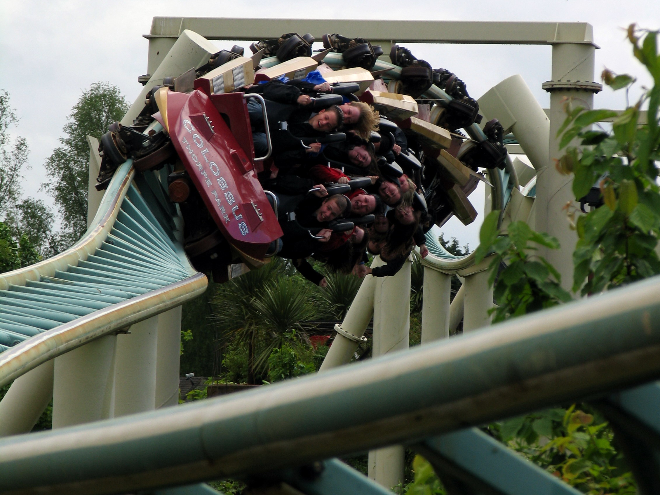 Roller coaster Colossus at Thorpe Park